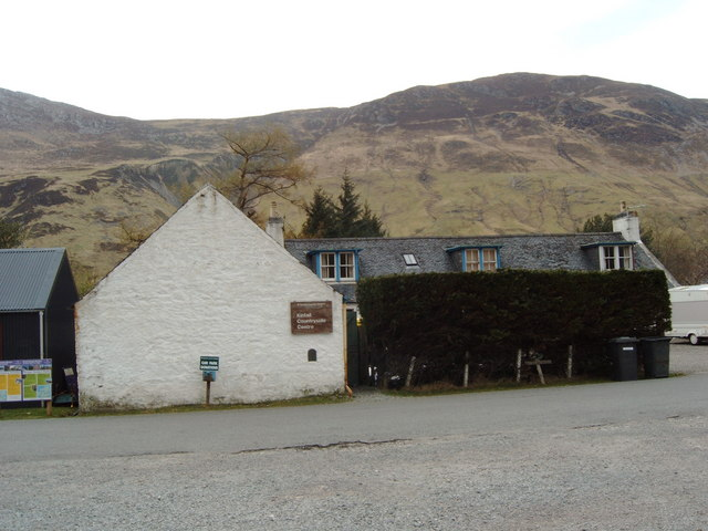 Kintail Countryside Centre